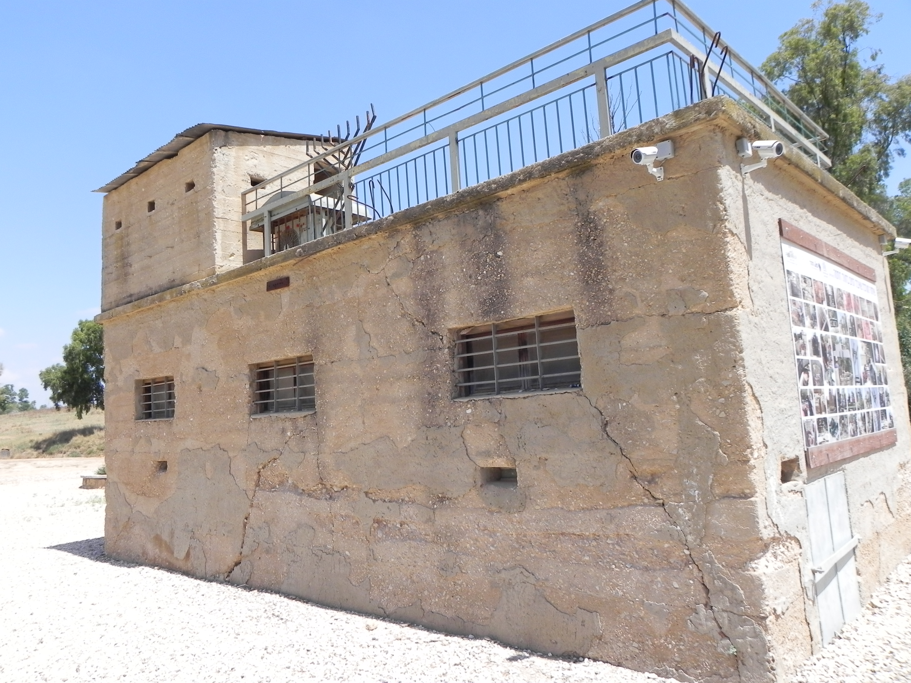 This image was taken as part of the Elef Millim project trip to the Rishonim baNegev Heritage Center, in Ruhama, which was held on Friday, 20th May 2016. To view all images uploaded as part of the Elef Millim Project